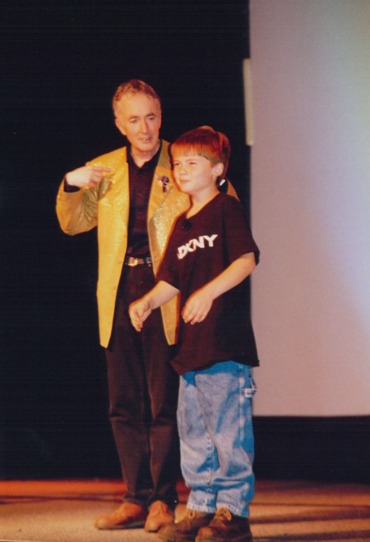 Star Wars Celebration (the 1st) - Anthony Daniels and Jake Lloyd